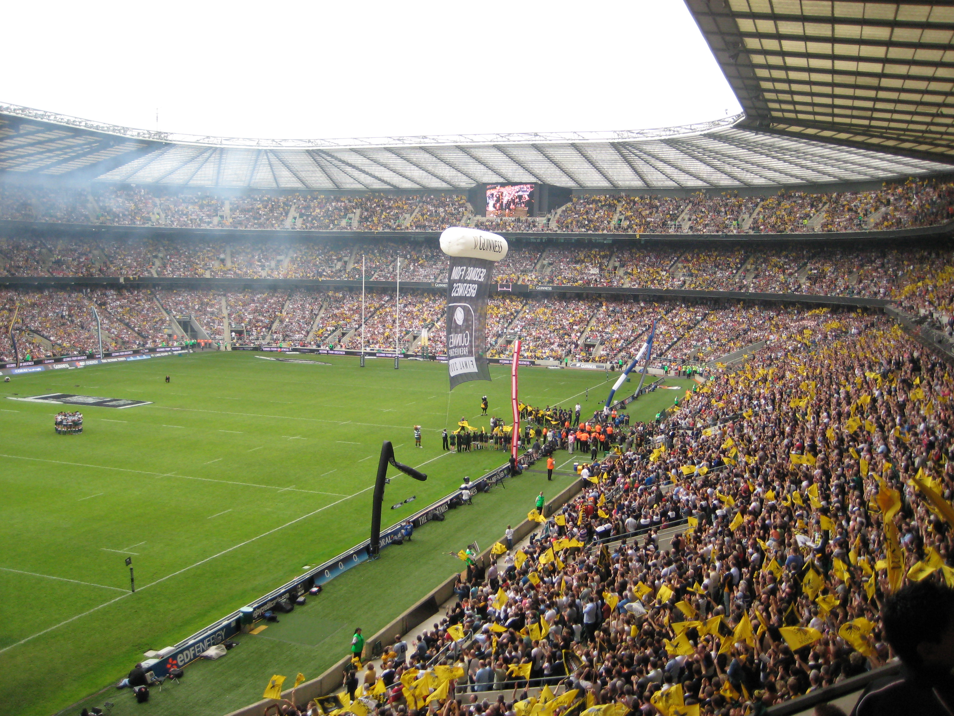 The view from the West Stand at Twickenham Stadium facing the newly developed South Stand in the aftermath of London Wasps 26-16 2007-08 Guinness Premiership final victory over Leicester Tigers.